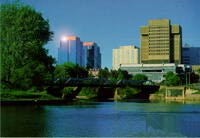 London skyline.